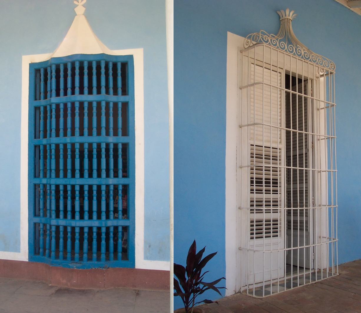 Barrotes and iron grille, old and new window guards, Trinidad, Cuba